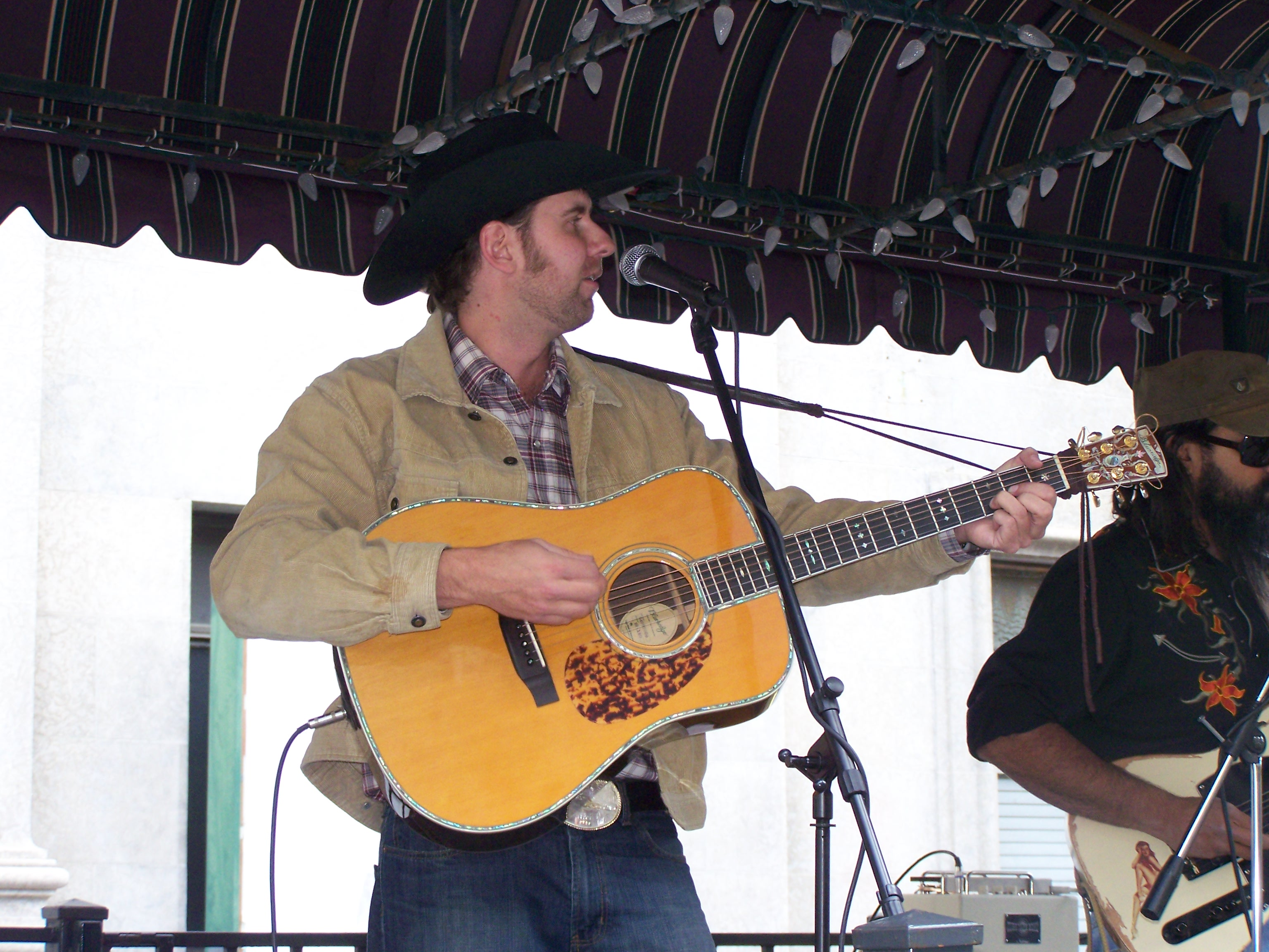 Tim Hus performing on Stephen Avenue Mall just east of 1 Street SW in downtown Calgary, Alberta, Canada